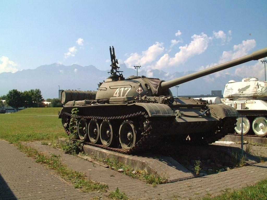 Ex-Polish T-54A main battle tank at tank museum in Thun, Switzerland.